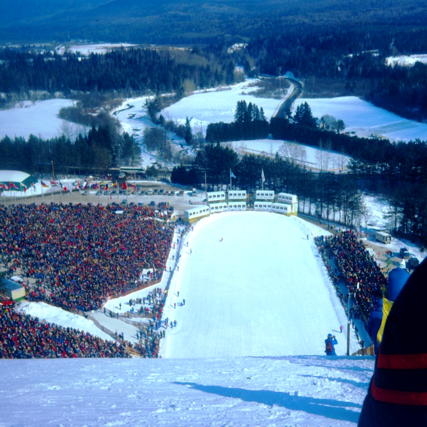 Scenery at the 1980 Winter Olympics.